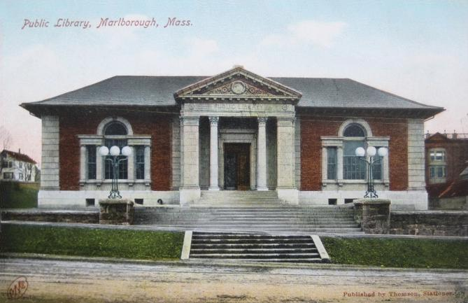 Public library, Marlborough, Massachusetts. Designed by Peabody & Stearns of Boston, Massachusetts, it was a Carnegie library built in 1903-1904.